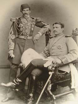 Photograph of Mustafa Fahmi Pasha, Prime Minister of Egypt (left), and Prince Hassan Isma'il (right).